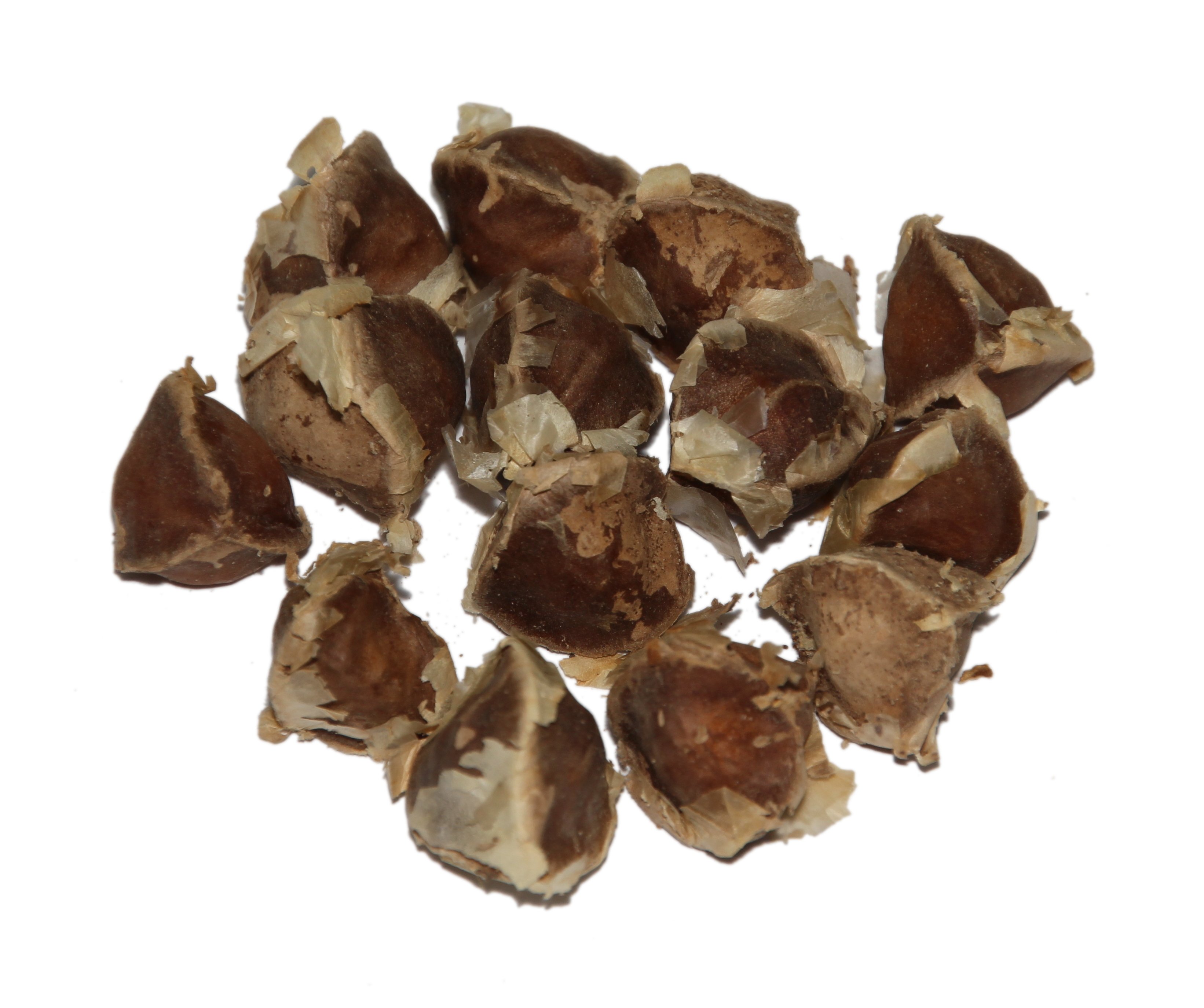 Seeds of Moringa oleifera from Martinique, France.